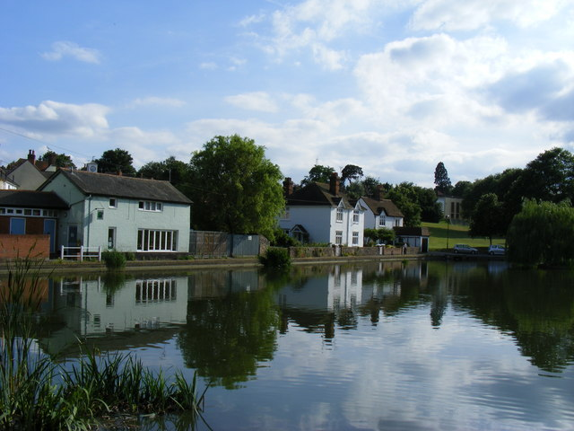 Doctors Pond in Great Dunmow It is thought that the doctors used to keep their supply of leeches in the doctors pond.